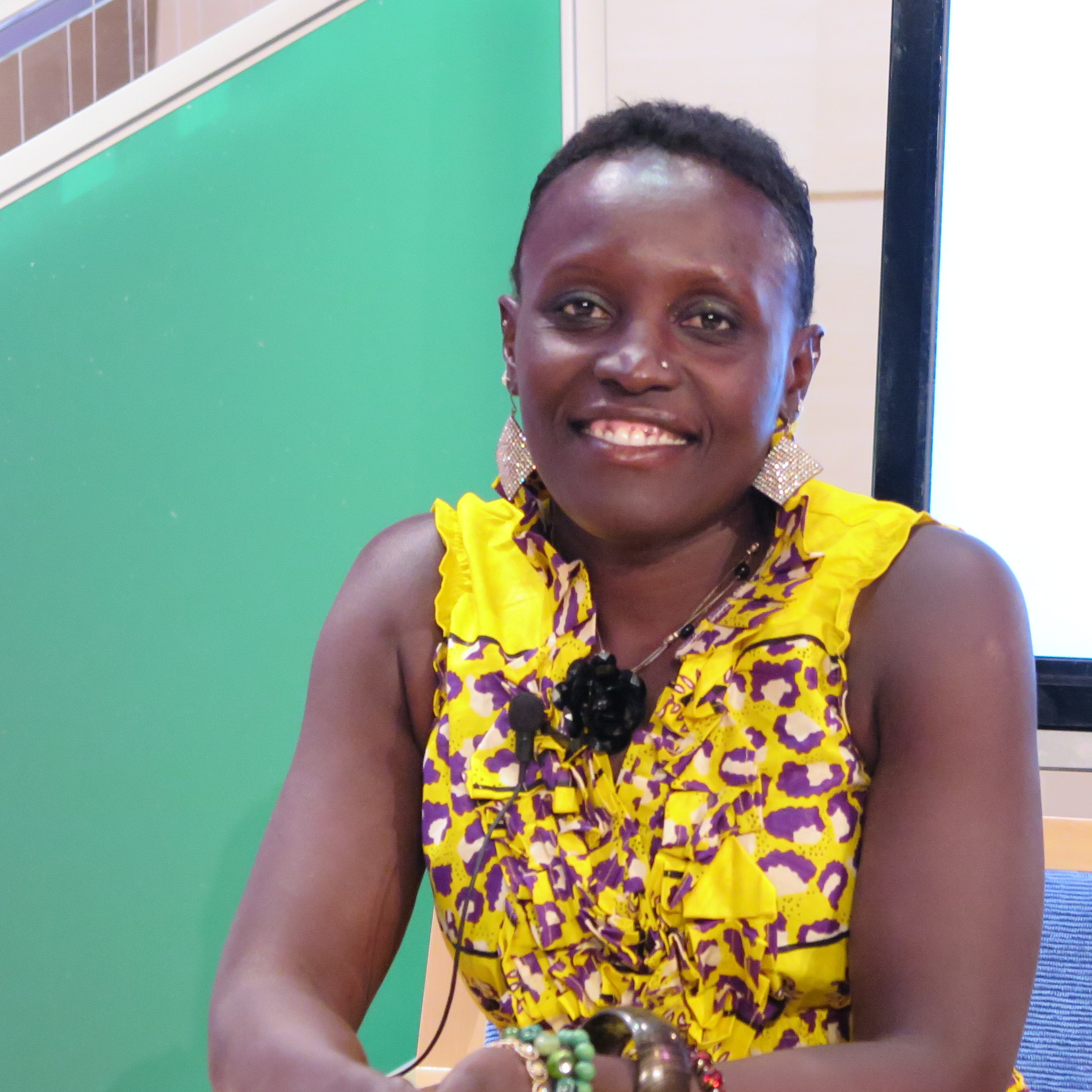 Esther Ngumbi at Spotlight Health Aspen Ideas Festival 2015